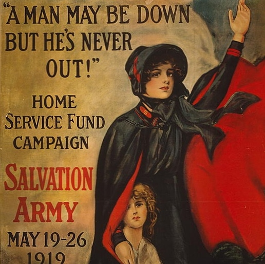 "'A man may be down but he's never out!' Home Service Fund Campaign. Salvation Army. May 19 — 26 1919." Salvation Army poster.